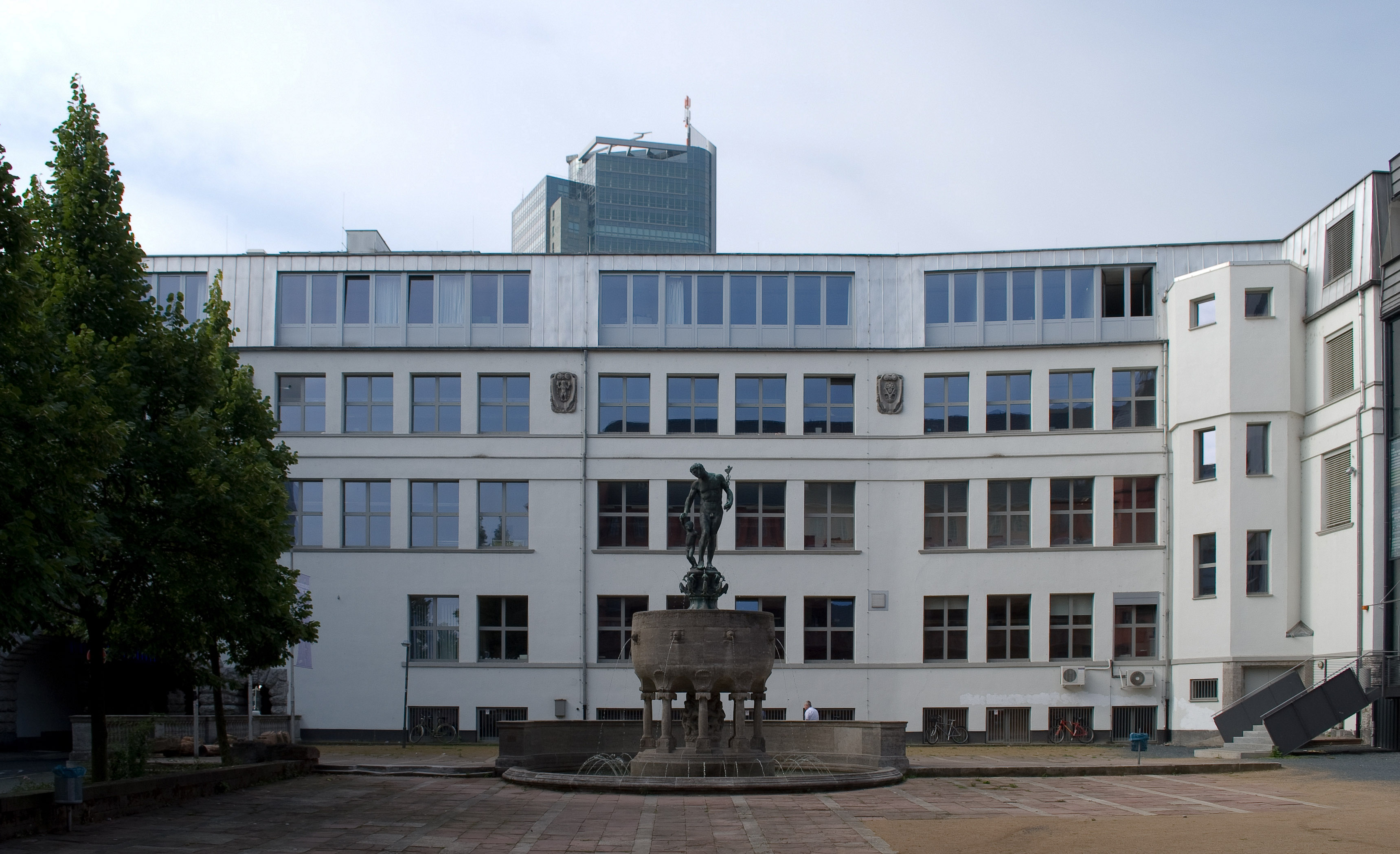 The Hochschule für Gestaltung Offenbach am Main is an art and design university of the German State of Hesse.